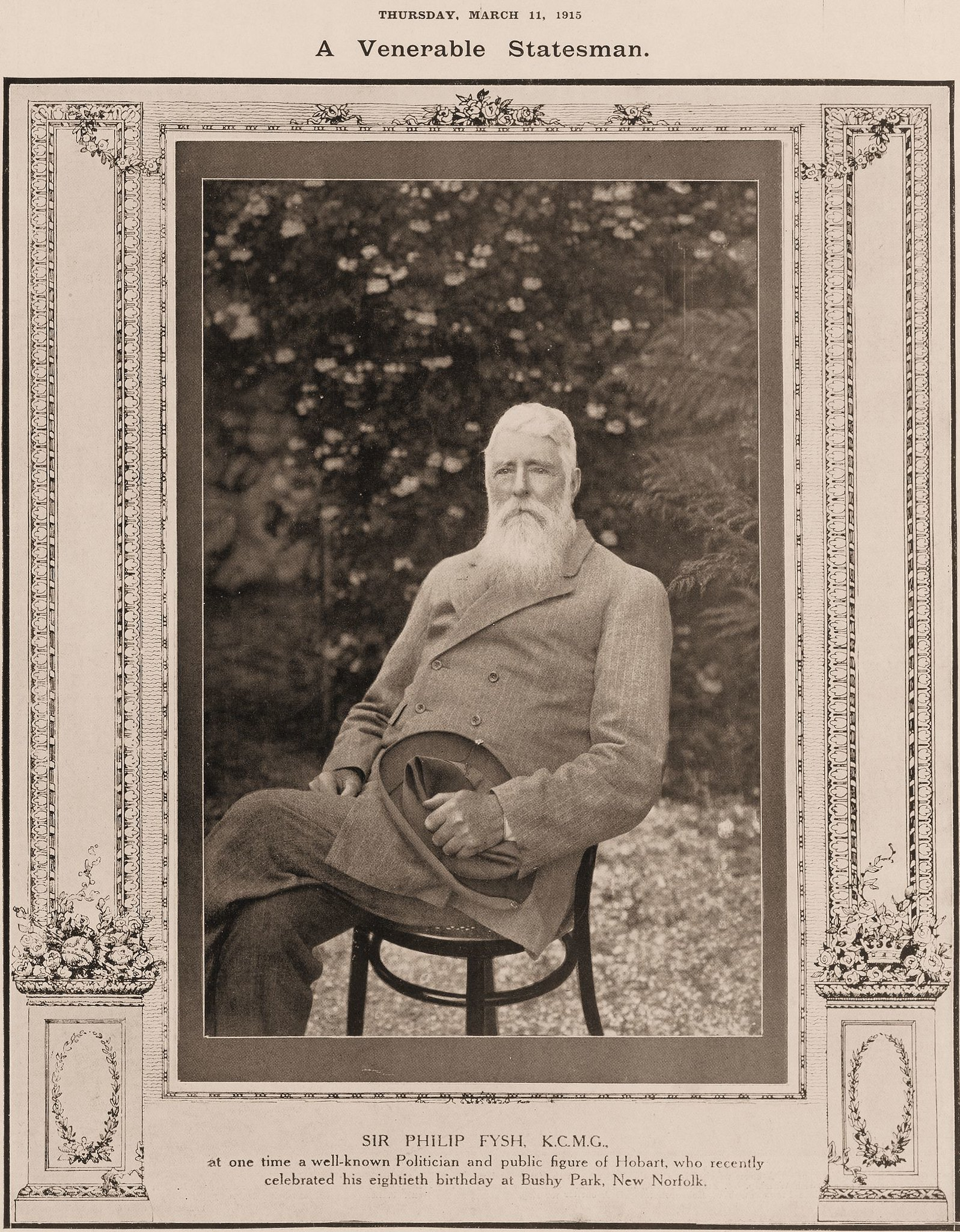 Retired Australian politician Philip Fysh at home shortly after his 80th birthday